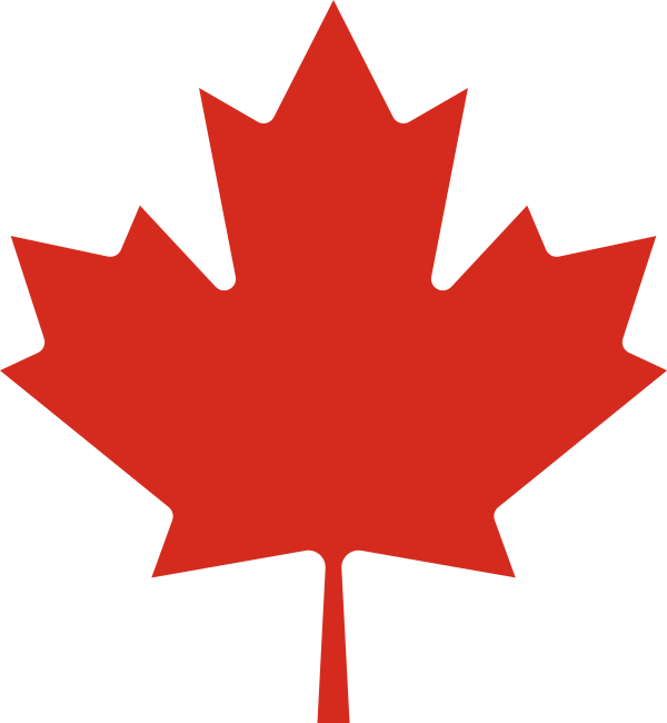 Maple Leaf featured on the Flag of Canada featuring Pantone specifications